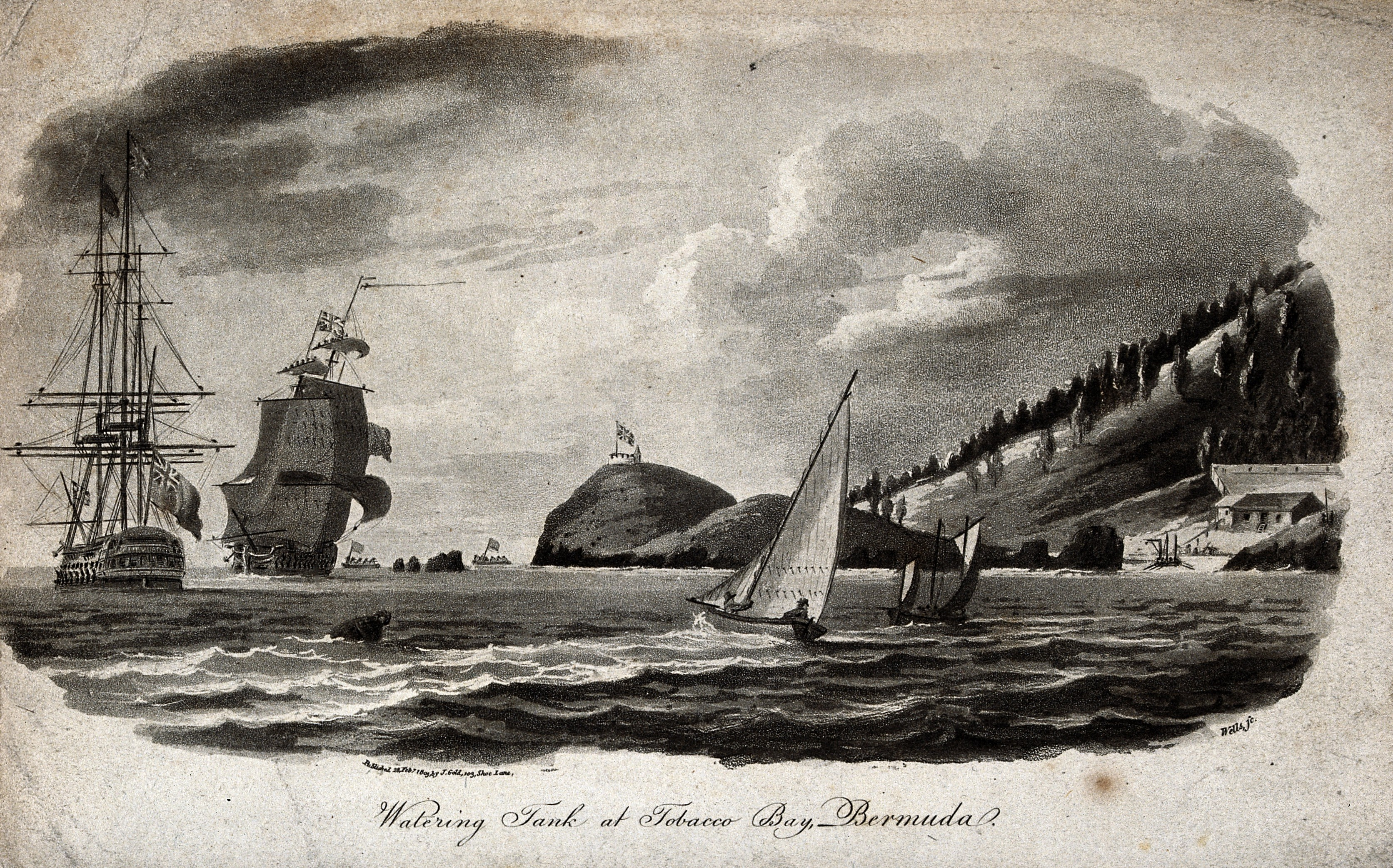 Watering tank at Tobacco Bay, Bermuda. Aquatint by Wells, 1809. Iconographic Collections Keywords: William Frederick Wells